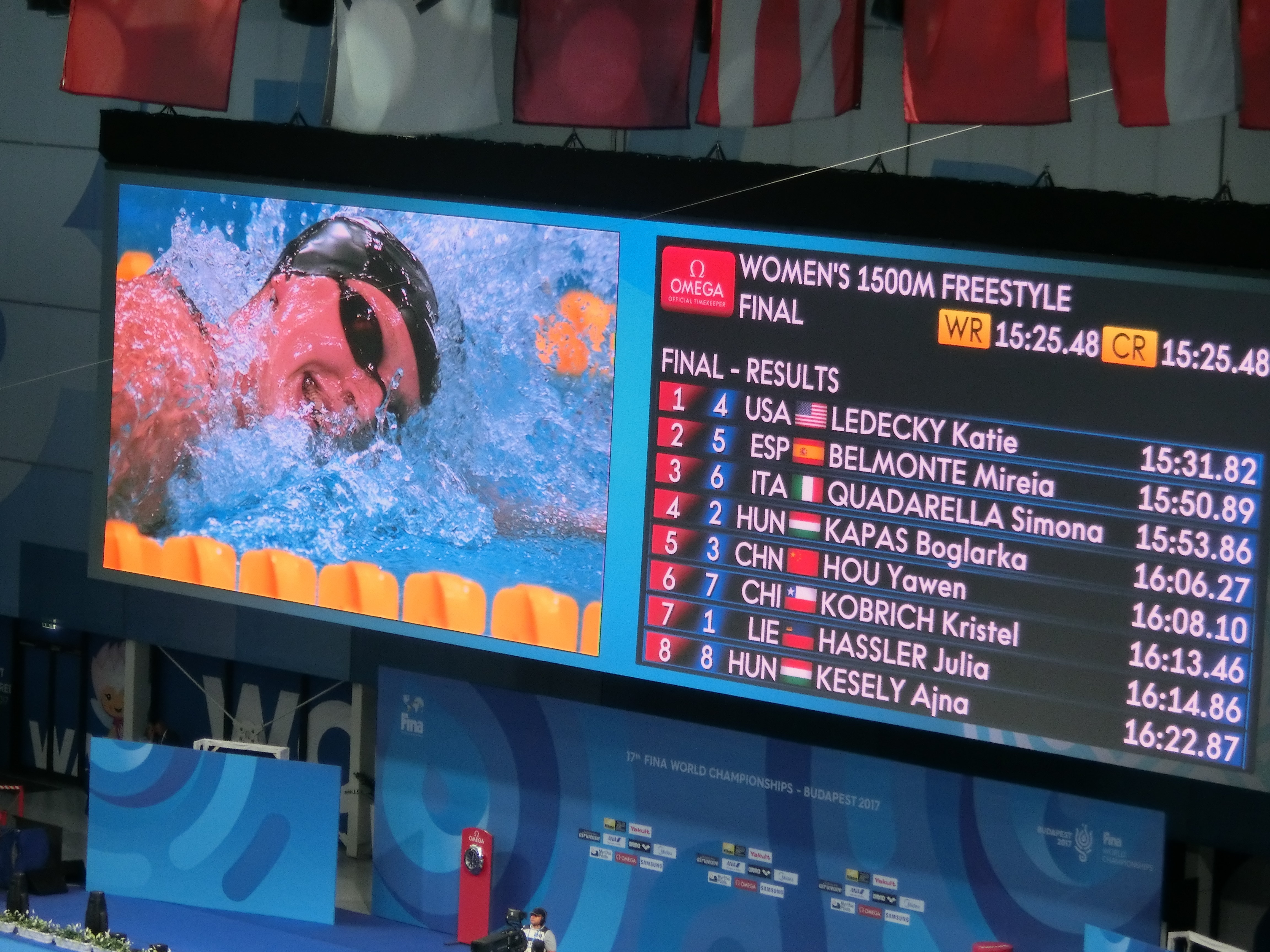 FINA World Championships, Budapest, 2017-07-25, 1500m freestyle women final. scoreboard. results. Place 1, lane 4: Katie Ledecky (USA) (on screen) Place 2, lane 5: Mireia Belmonte (Spain) Place 3, lane 6: Simona Quadarella (Italy) Place 4, lane 2: Boglarka Kapas (Hungary) Place 5, lane 3: Yawen Hou (China) Place 6, lane 7: Kristel Kobrich (Chile) Place 7, lane 1: Julia Hassler (Liechtenstein) Place 8, lane 8: Ajna Kesely (Hungary)